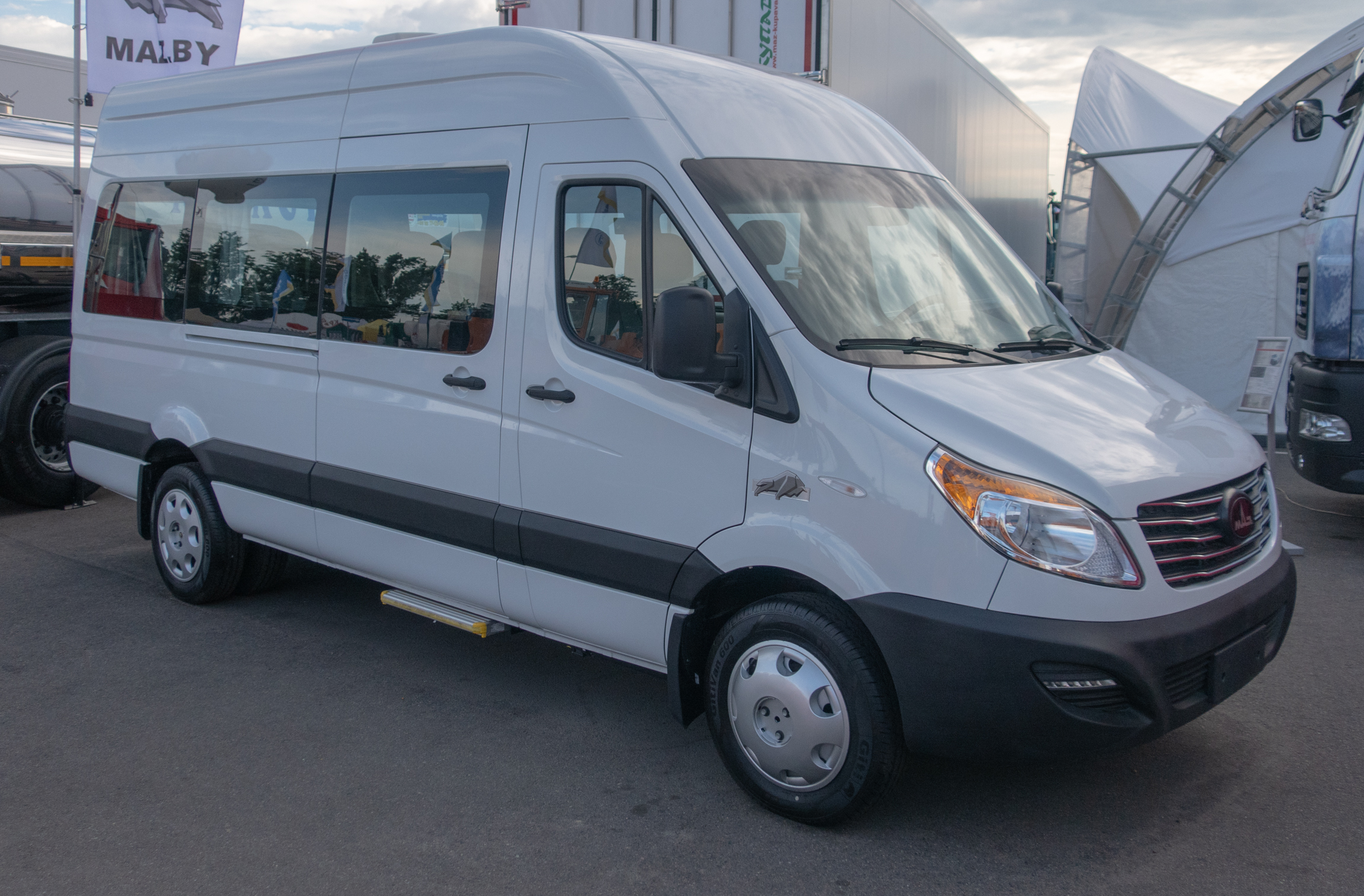 MAZ-281 minibus. Photo taken on Belagro-2019 exhibition (Minsk district, Belarus)